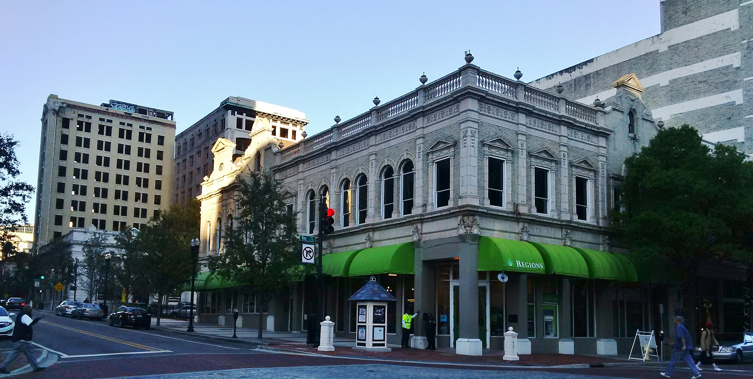 Downtown Jacksonville